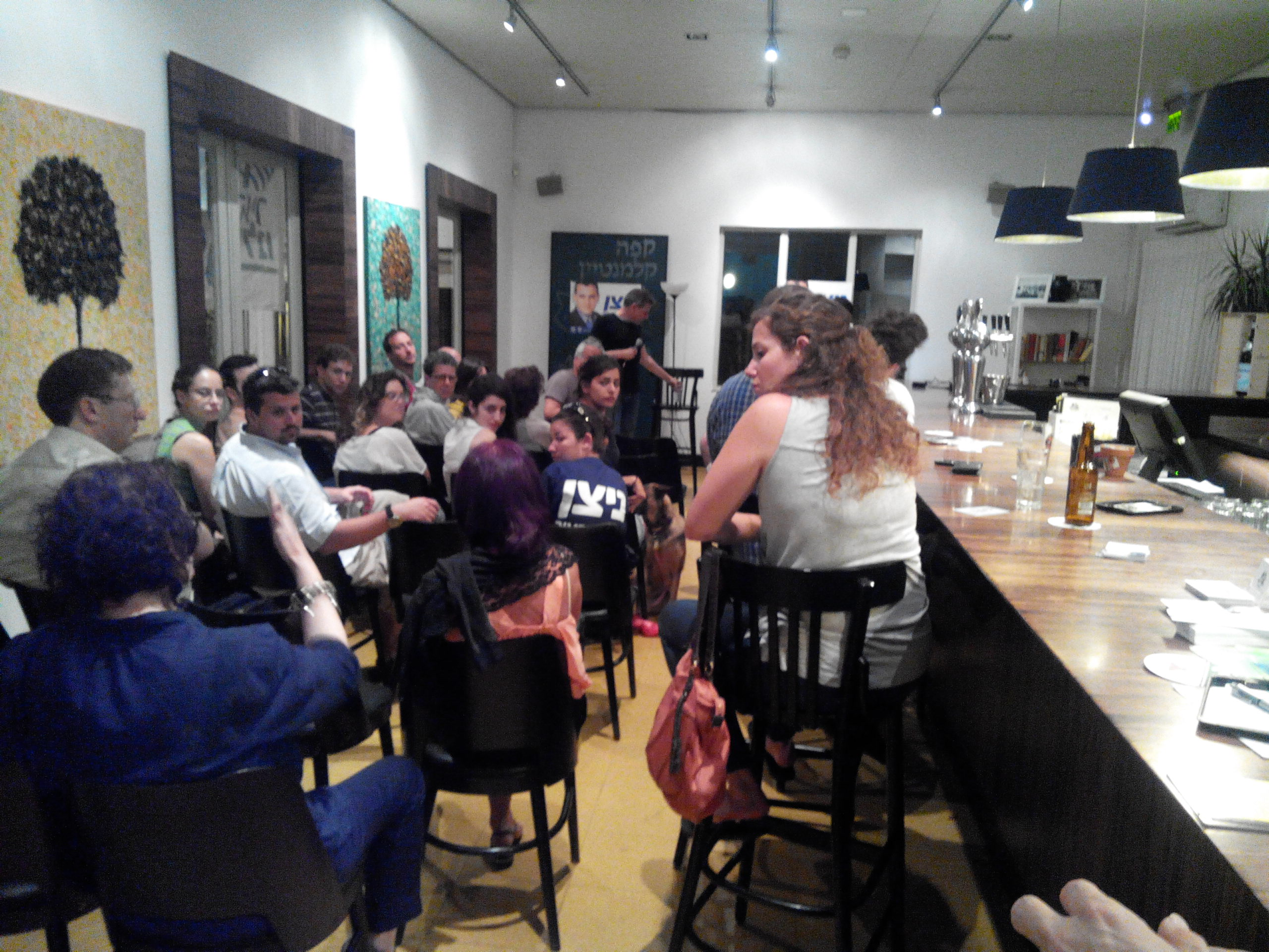 A discussion meeting of tel aviv residents with MK Nitzan Horowitz during his 2013 mayor campaign